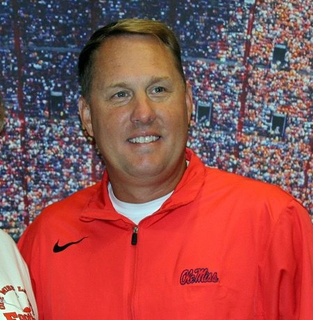 Hugh Freeze was the head coach of the University of Mississippi (Ole Miss) Rebels football team.